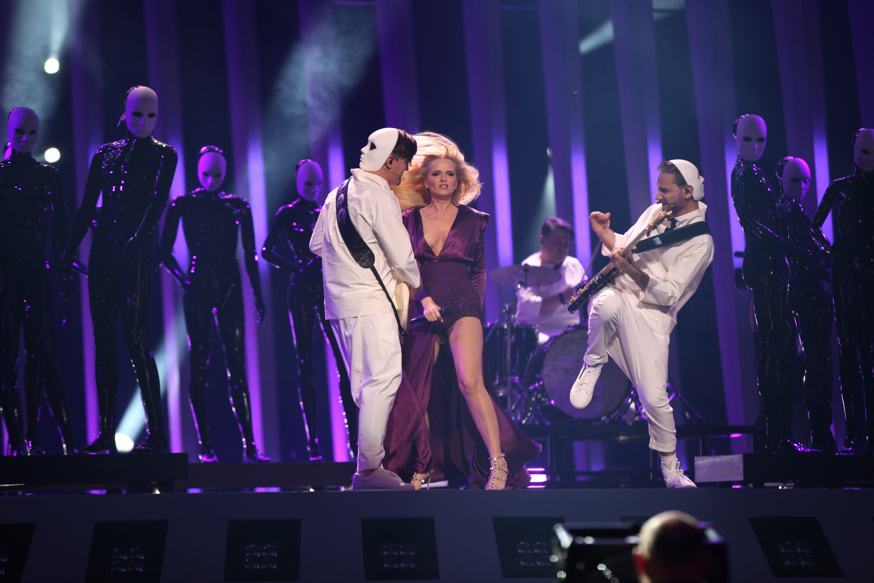 The Humans representing Romania with the song "Goodbye" during a rehearsal before the second semi final of the Eurovision Song Contest 2018 in Lisbon.